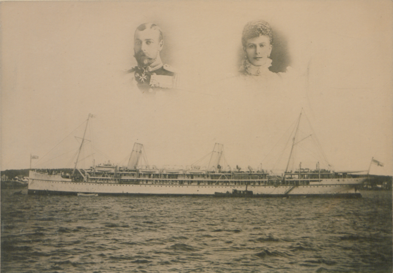 Original caption: “Duke and Duchess of York with HMS "Ophir".”